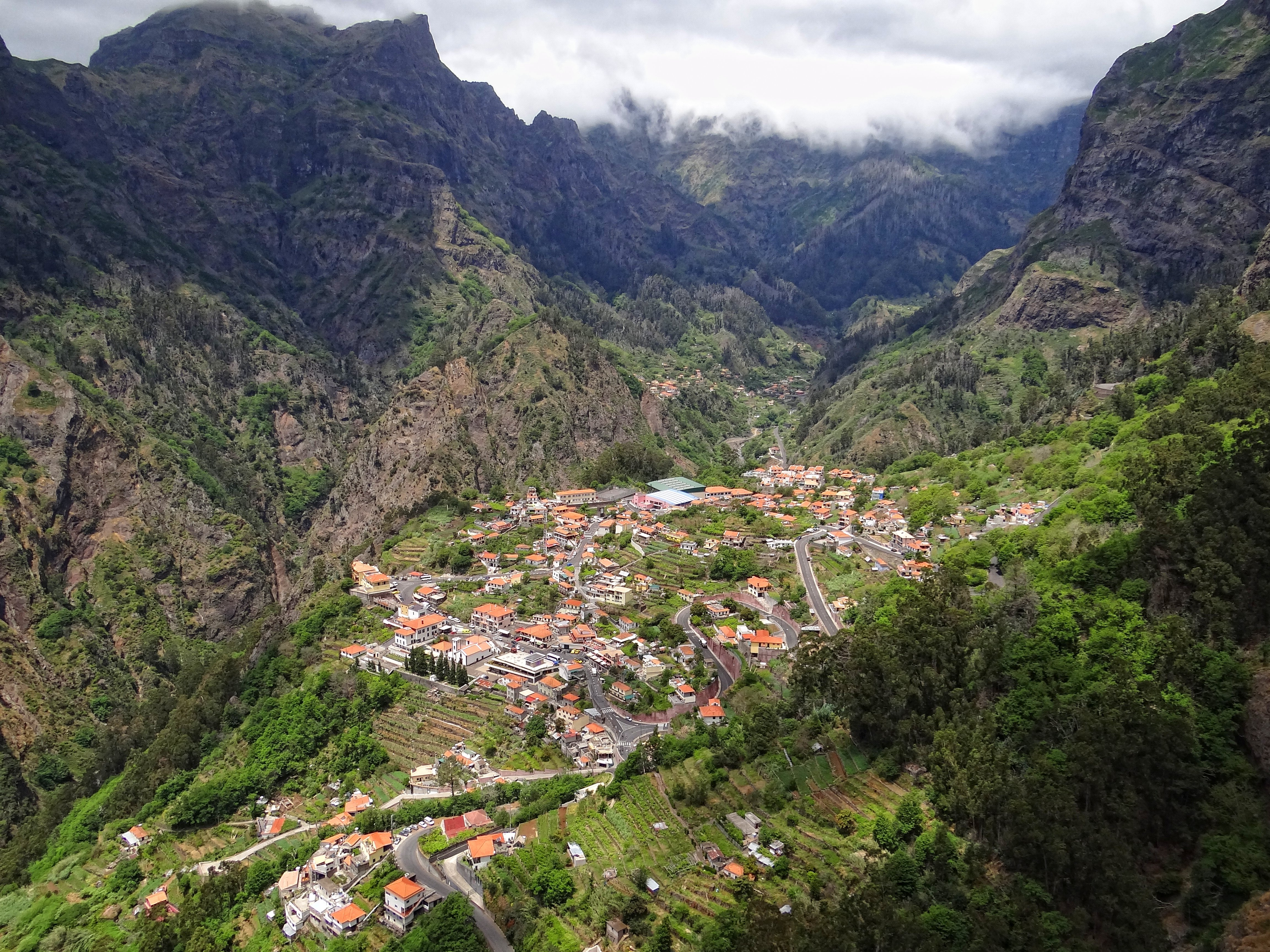 The village of Curral das Freiras photographed from the old road out of the valley, from the south.